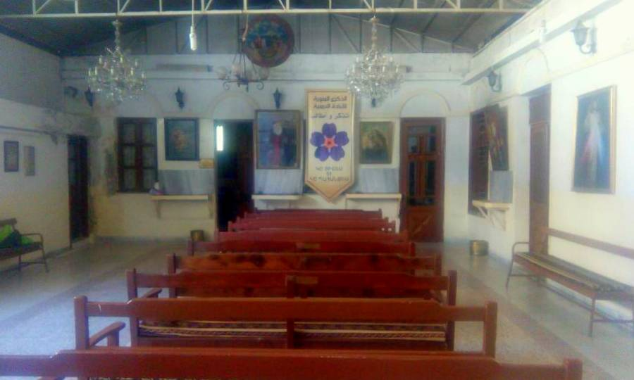 Saint James (Jacob) Armenian Church, Aleppo.